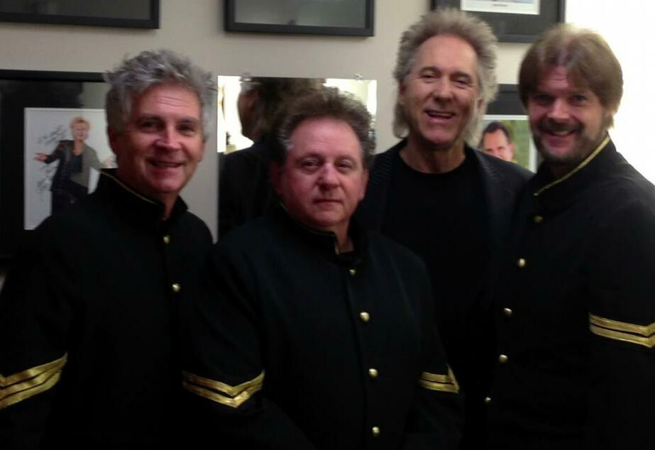 Union Gap present day